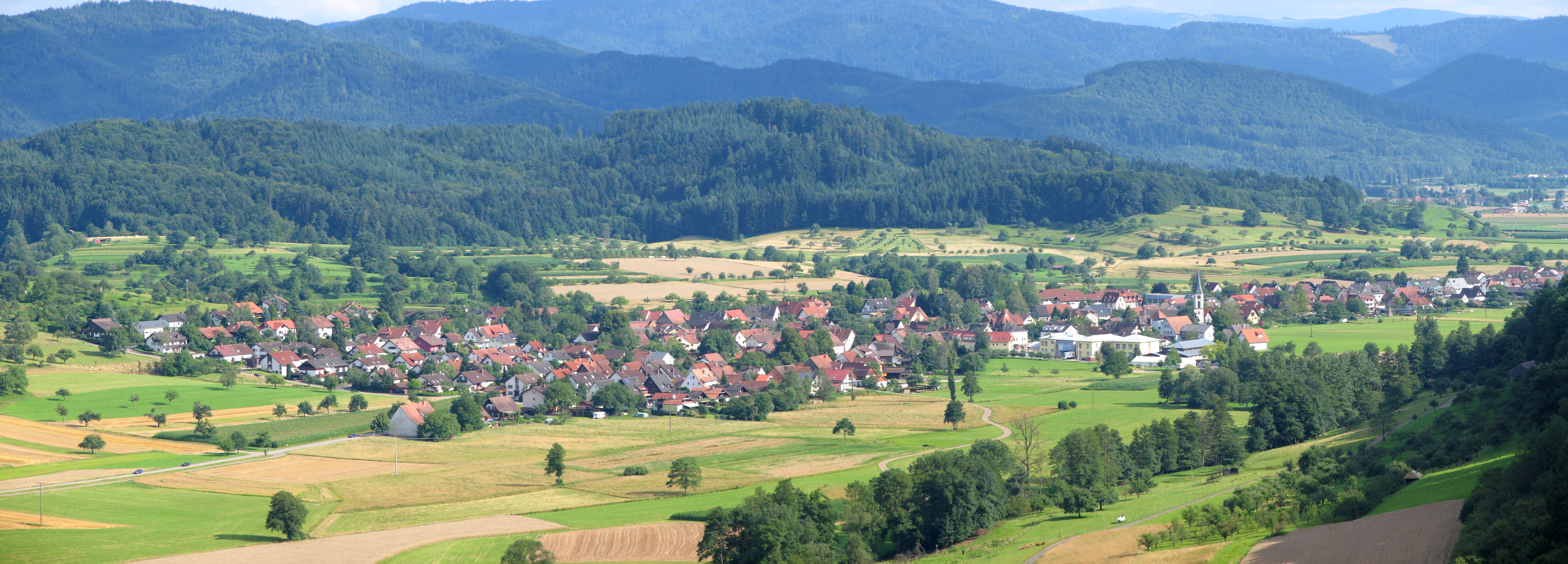 Panoramaview of Sexau